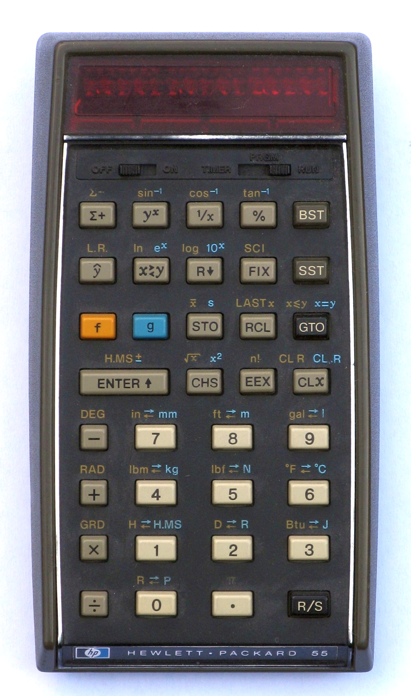 Photograph of an HP-55 pocket calculator